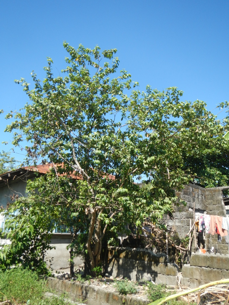 Psidium guajava or Bayabas in Barangay San Francisco, Concepcion, Tarlac Km.113 from and along the Magalang-Concepcion Road connecting to the NLEX and SCTex entrance and exits to the Concepcion, Tarlac National Road, towards the Concepcion-La Paz and Concepcion-Capas, Tarlac from and to MacArthur Highway.